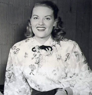 Photo of singers Frankie Laine (at piano) and Patti Page. The photo appears to have been taken in a recording studio; both vocalists were recording for Mercury Records in the early 1950s. Laine was born in 1913 and died in 2007; Page was born in 1927. The man at left appears to be singer Richard Hayes who was also with Mercury at that time.